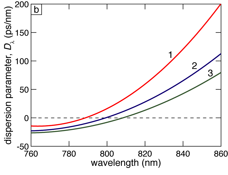 dispersion curves